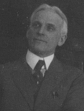 Charles Bush, Elks Anchorage Lodge, No. 1351, ca. 1924.